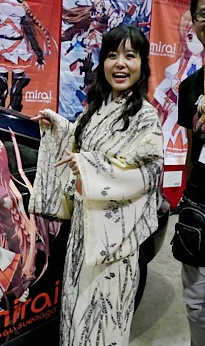 Miyuki Sawashiro at Anime Expo 2011. Sawashiro-san was checking out the exibit halls and popped along to my booth to check it out.